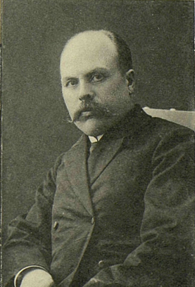 Aleksander Terras (1875-?), a member of the Third Russian State Duma, 1907-1912